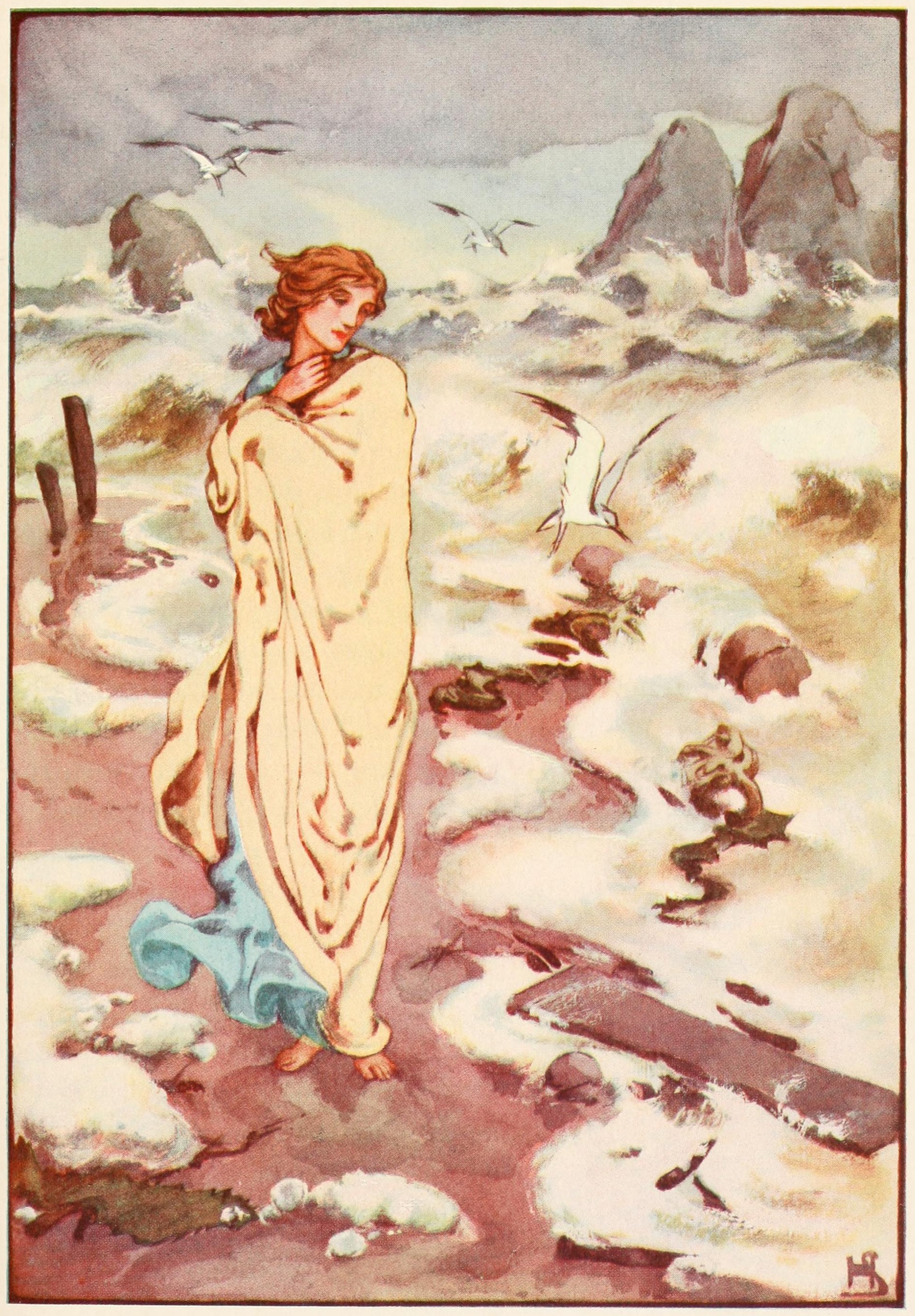 Illustration from a collection of myths.